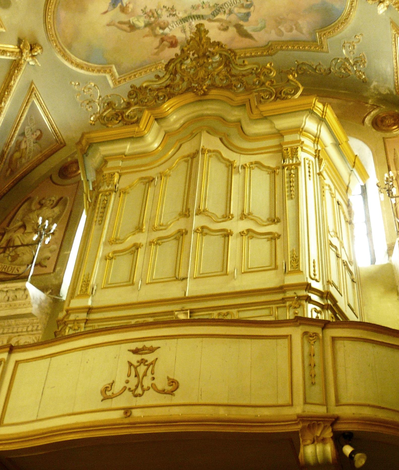 Organ of Nostra Signora Assunta's Church, Santa Maria del Campo, Rapallo, Italy.